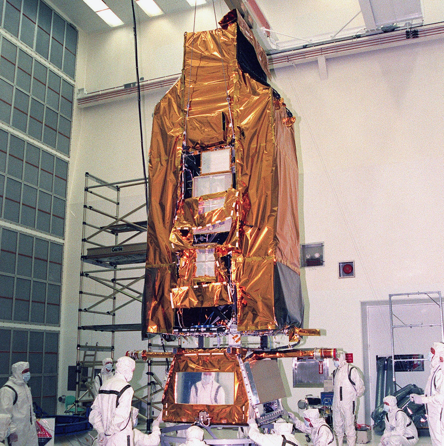 Suspended by a crane in Hangar AE, Cape Canaveral Air Station, NASA's Far Ultraviolet Spectroscopic Explorer (FUSE) satellite is lowered onto a circular Payload Attach Fitting (PAF). FUSE is undergoing a functional test of its systems, plus installation of flight batteries and solar arrays. Developed by The Johns Hopkins University under contract to Goddard Space Flight Center, Greenbelt, Md., FUSE will investigate the origin and evolution of the lightest elements in the universe - hydrogen and deuterium. In addition, the FUSE satellite will examine the forces and process involved in the evolution of the galaxies, stars and planetary systems by investigating light in the far ultraviolet portion of the electromagnetic spectrum. FUSE is scheduled to be launched May 27 aboard a Boeing Delta II rocket at Launch Complex 17.